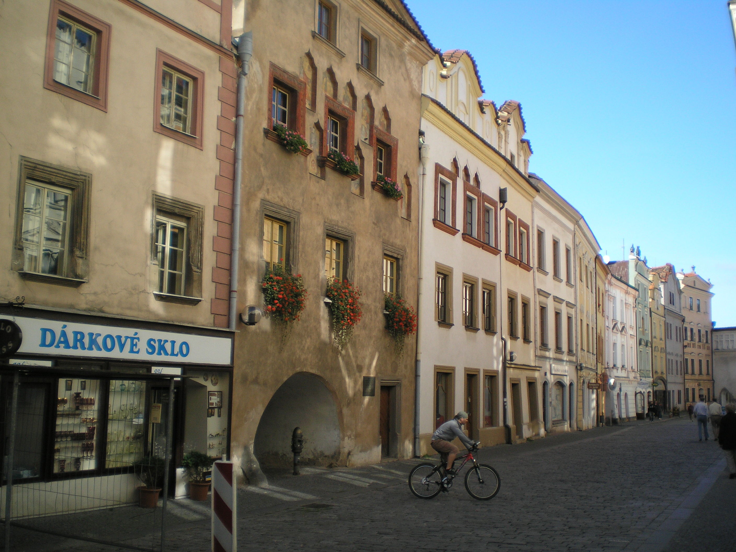 Pardubice Perštýnská str.1